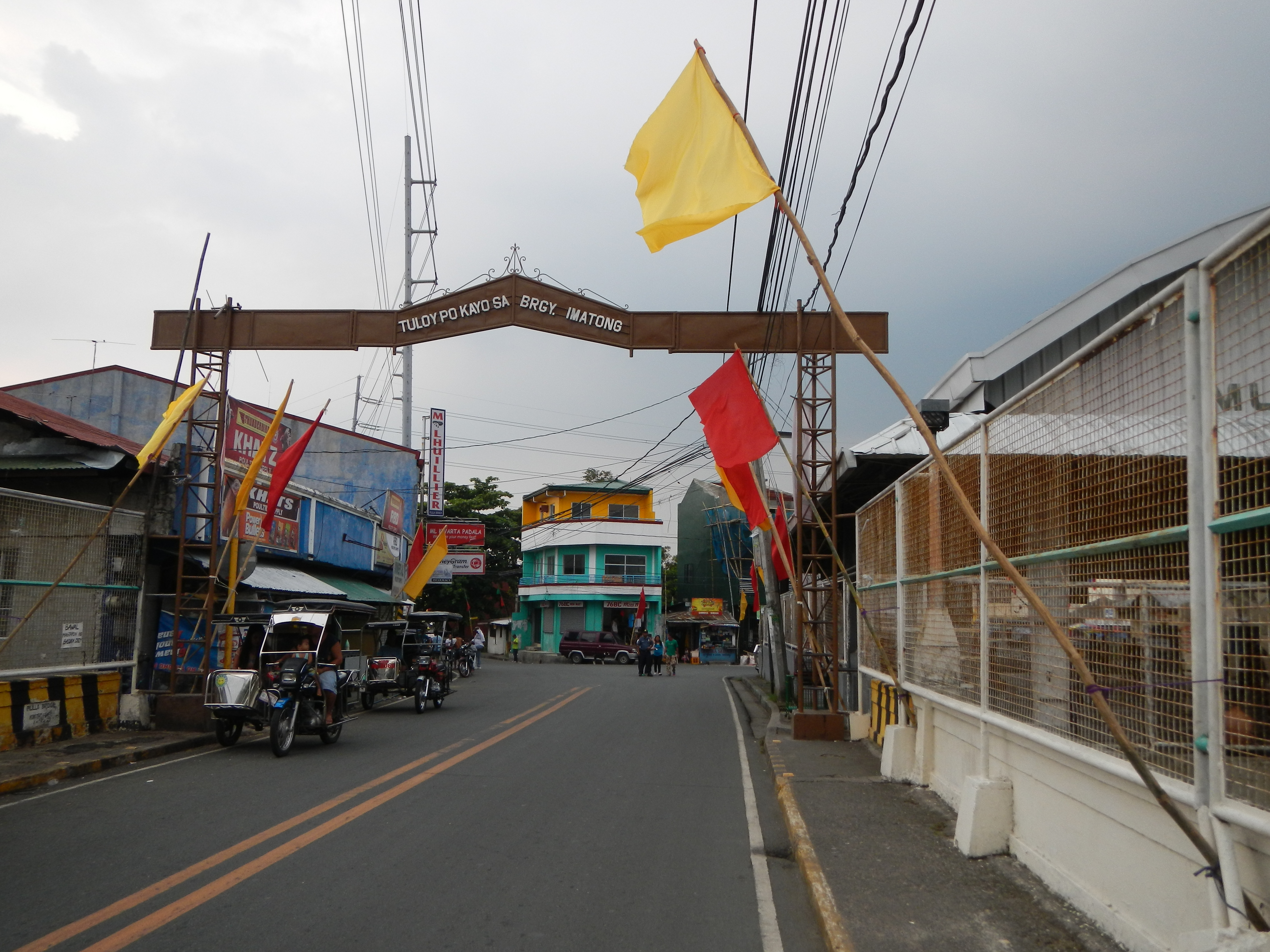 Barangay Imatong --- Pililla, Rizal [1] is a first class urban municipality in the province of Rizal,[2] Philippines with a population of 59,527 inhabitants in 9,001 households, and known as the Green Field Municipality of Rizal, just few kilometers away from Tanay, Rizal and subdivided into 9 barangays.Election results 2013 [3] Quisao / Land area: 73.90 km² Founded: 1583 Coordinates: 14°26'45"N 121°19'48"E Profile Pililla benefits from RE investment windfalls New wind farm in Rizal A visit to Sitio Bugarin, Pililla, Rizal Alternergy sets aside $380 million for two Rizal wind projects Alternergy Wind One Corporation will be investing $380 million for two wind power projects of 67-megawatt capacity each in Rizal province; the planned Mount Sembrano wind power facility will come next.